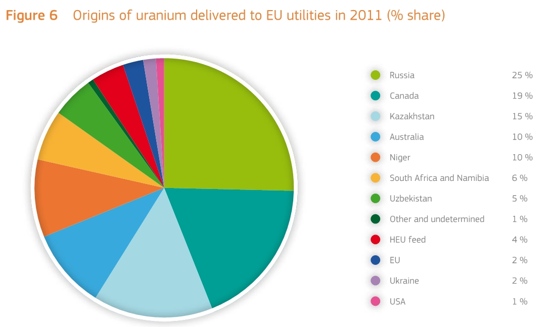 EURATOM Supply Agency Annual Report 2011: Origins of uranium delivered to EU utilities in 2011